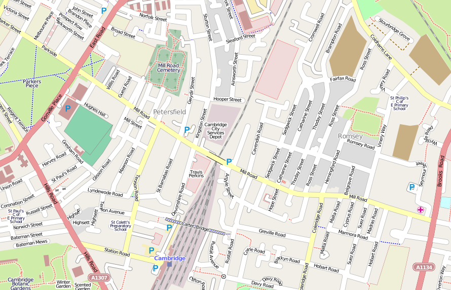 Map of the Mill Road area of Cambridge.